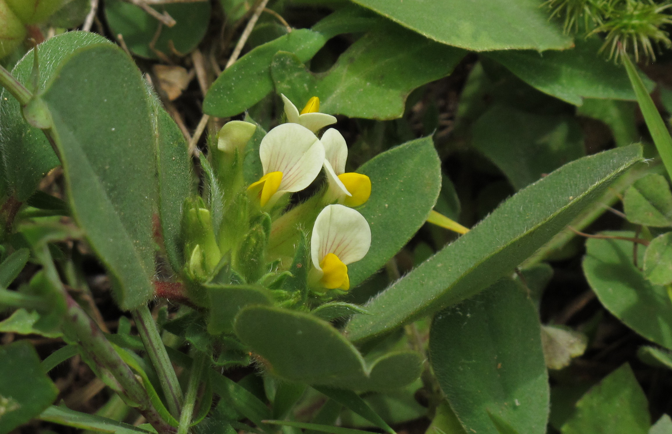 Tripodion tetraphyllum between Sises and Aloides, Crete. Greece